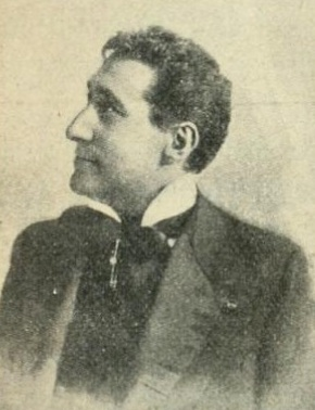 Portrait of the Italian actor Ermete Novelli. In "Illustri italiani contemporanei" by Onorato Roux (Firenze, 1908)